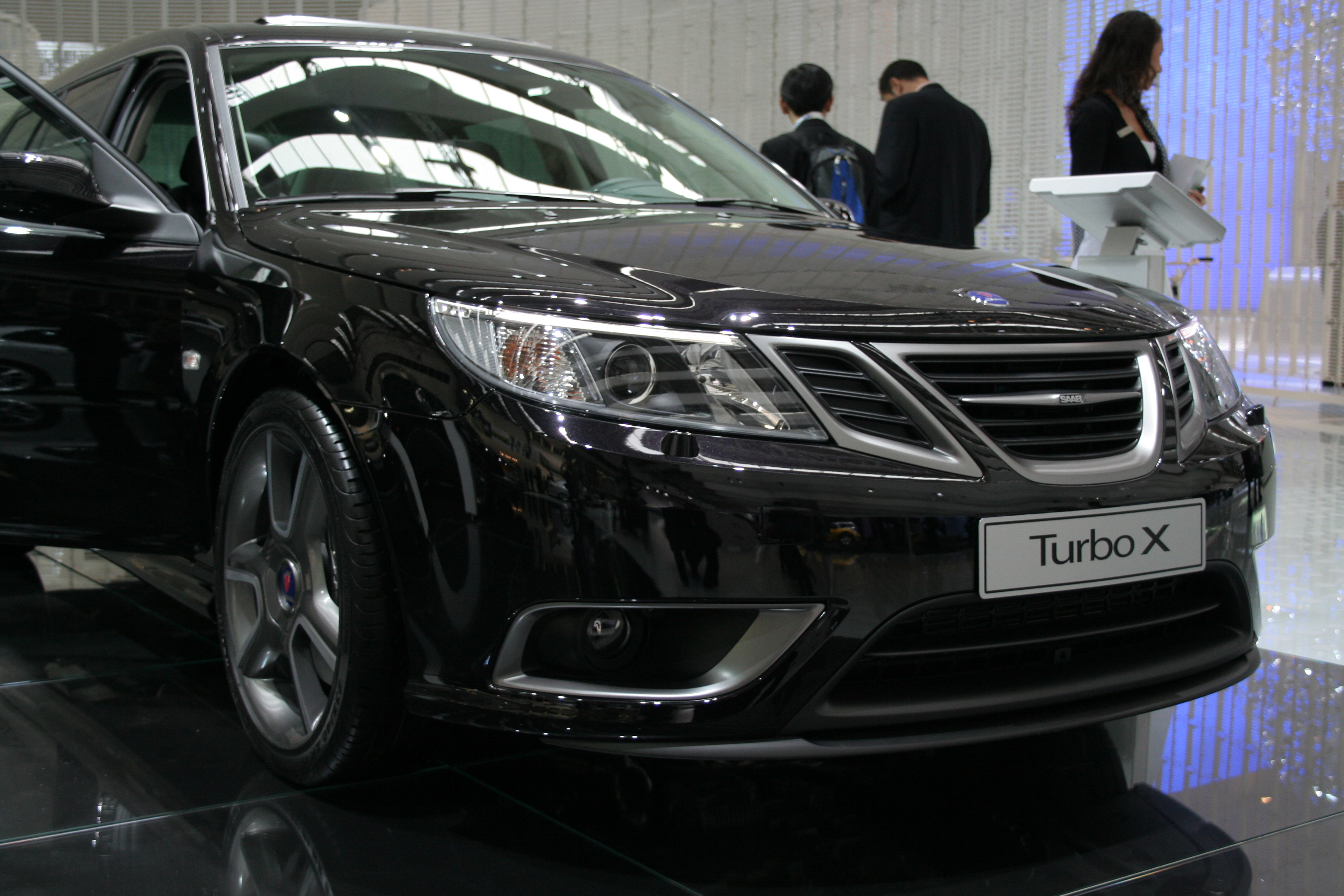 Image from IAA 2007 in Frankfurt am Main